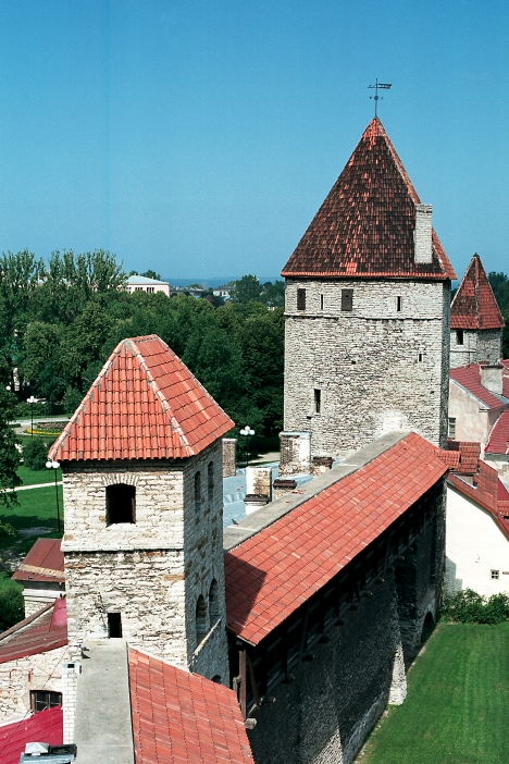 The city wall of Tallinn with Sauna tower in front and Kuldjala tower behind.